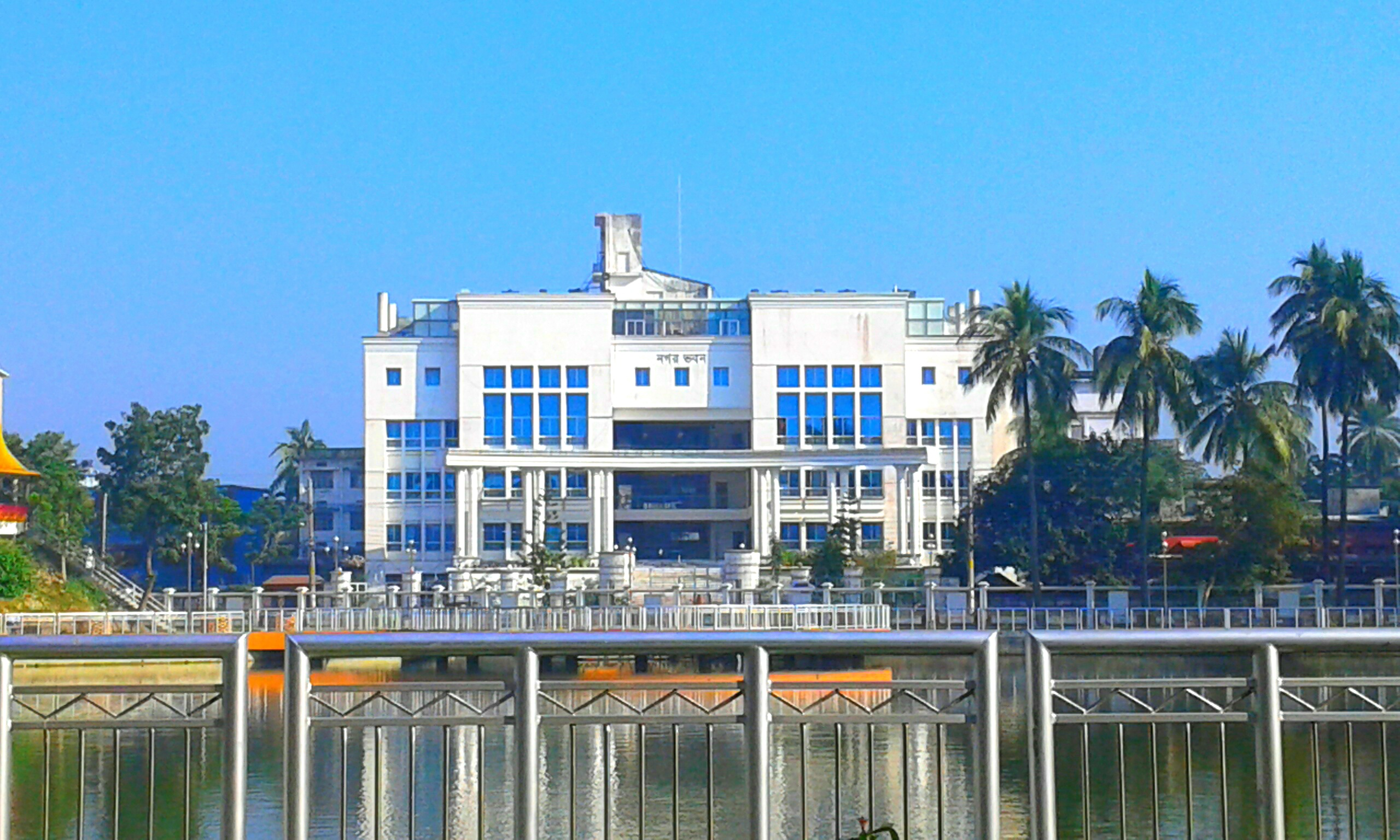 A view of Khulna Nagar Bhaban from Hadis Park Fountain.